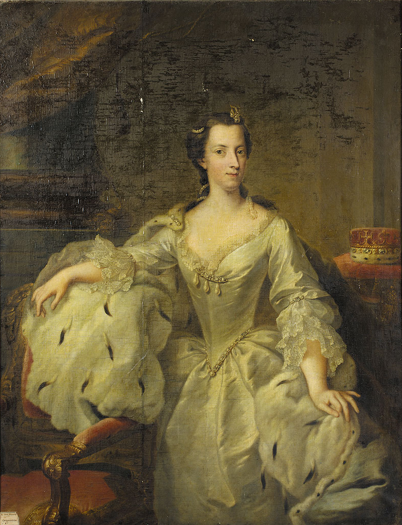 Portrait of Mary of Great Britain (1723-1772)